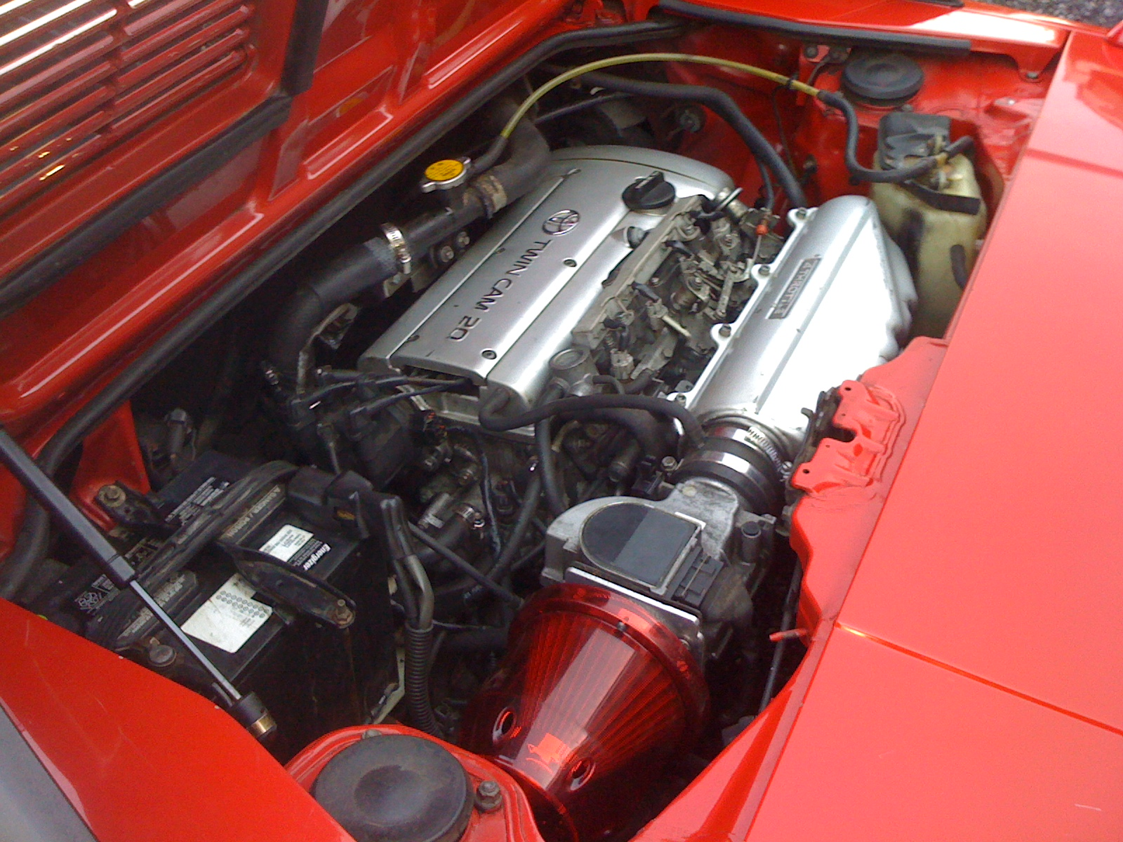 A 1986 model Toyota MR2 (AW11)with a Fourth Generation 4A-GE Twin Cam 20 valve Silver Top swap